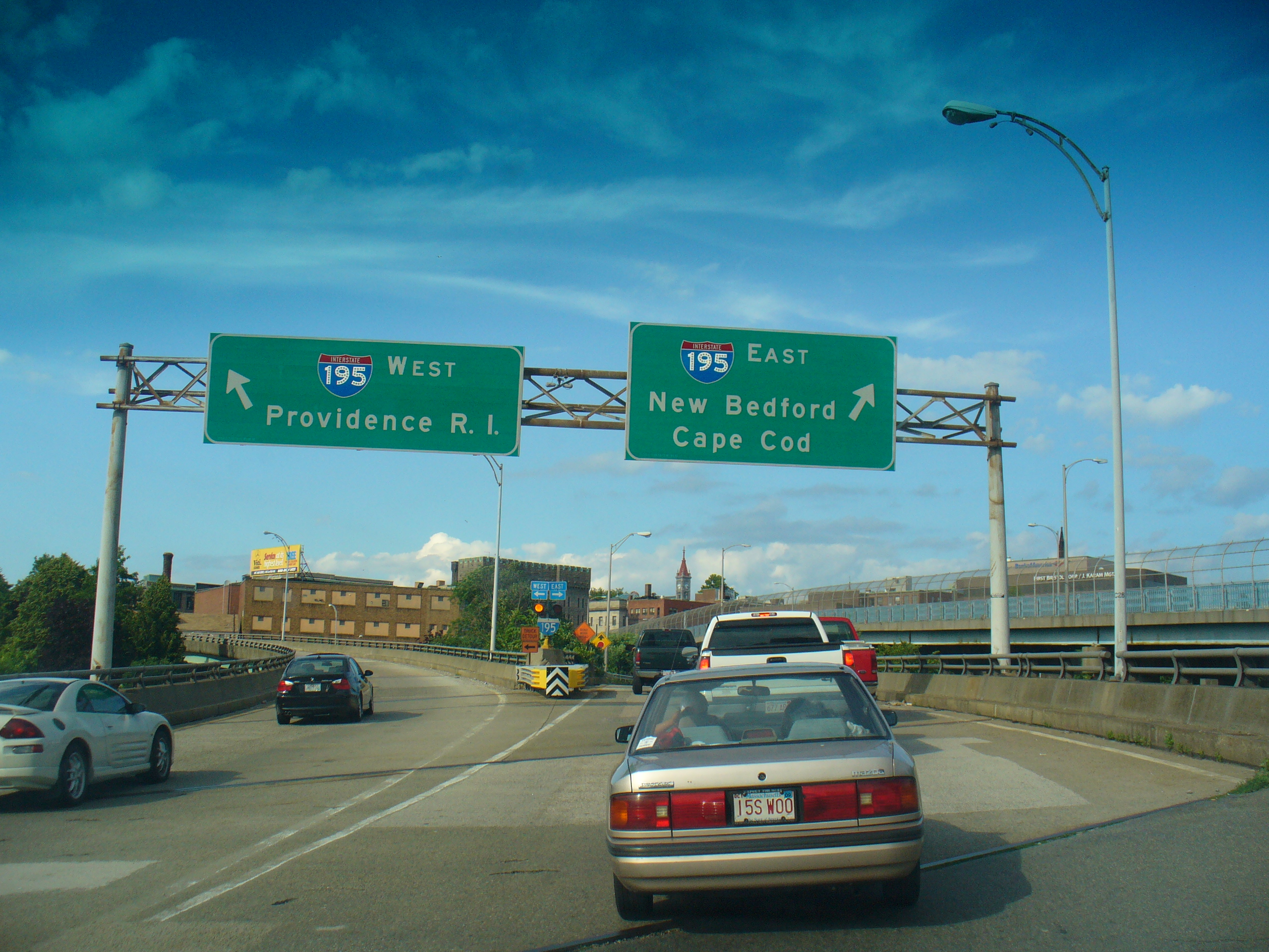 I-195 split (left is to Braga Bridge, right is to Fall River City Hall)